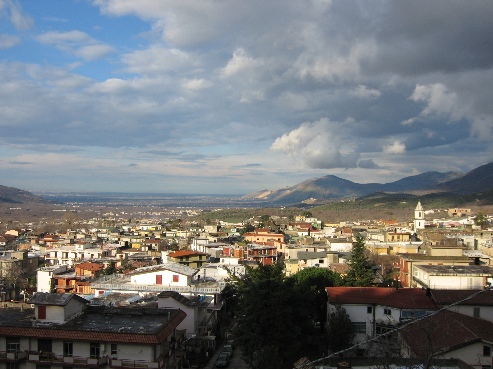 The village of Quadrelle in Avelino, Campania, Italy. Picture taken by Babak Hosseinkhani Jan. 2006.